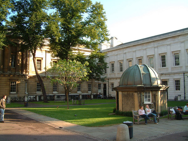 A view of the Quad, part of the main campus of University College London, view of the UCL Registry on the left, and UCL Department of Engineering on the right, one of two observatories with a sliding roof is to the right forground. This photograph was taken for the Wikimania 2007 bid.